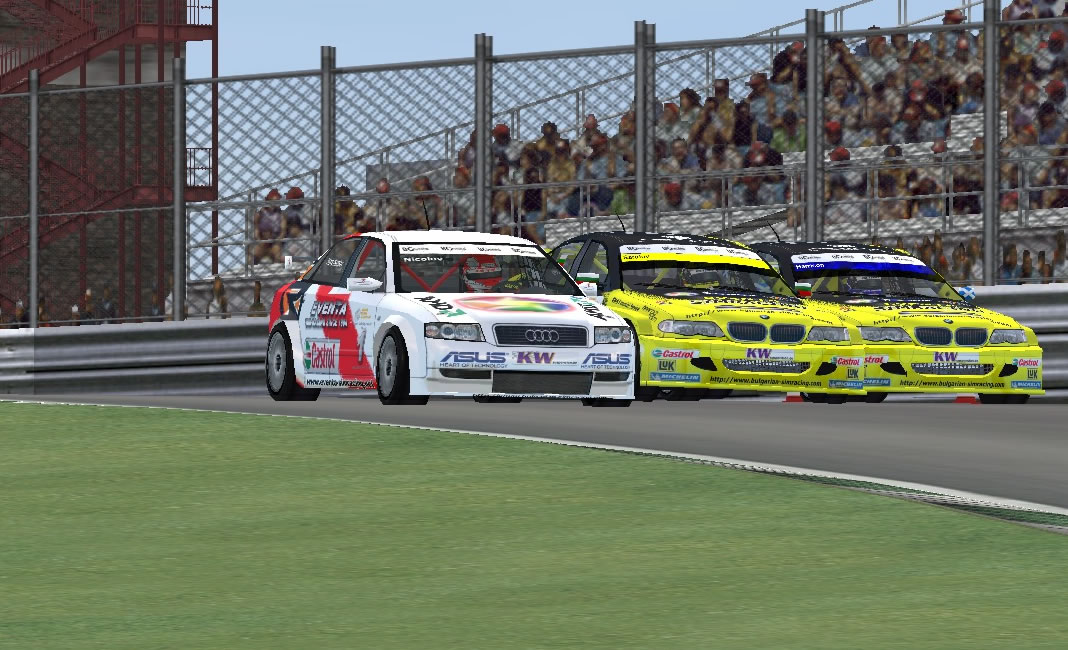 Martin Nicolov (Eventa-S Audi), Trayan Sarafov, John Harrison (Eventa-BMW) - 2005 Donigton Park